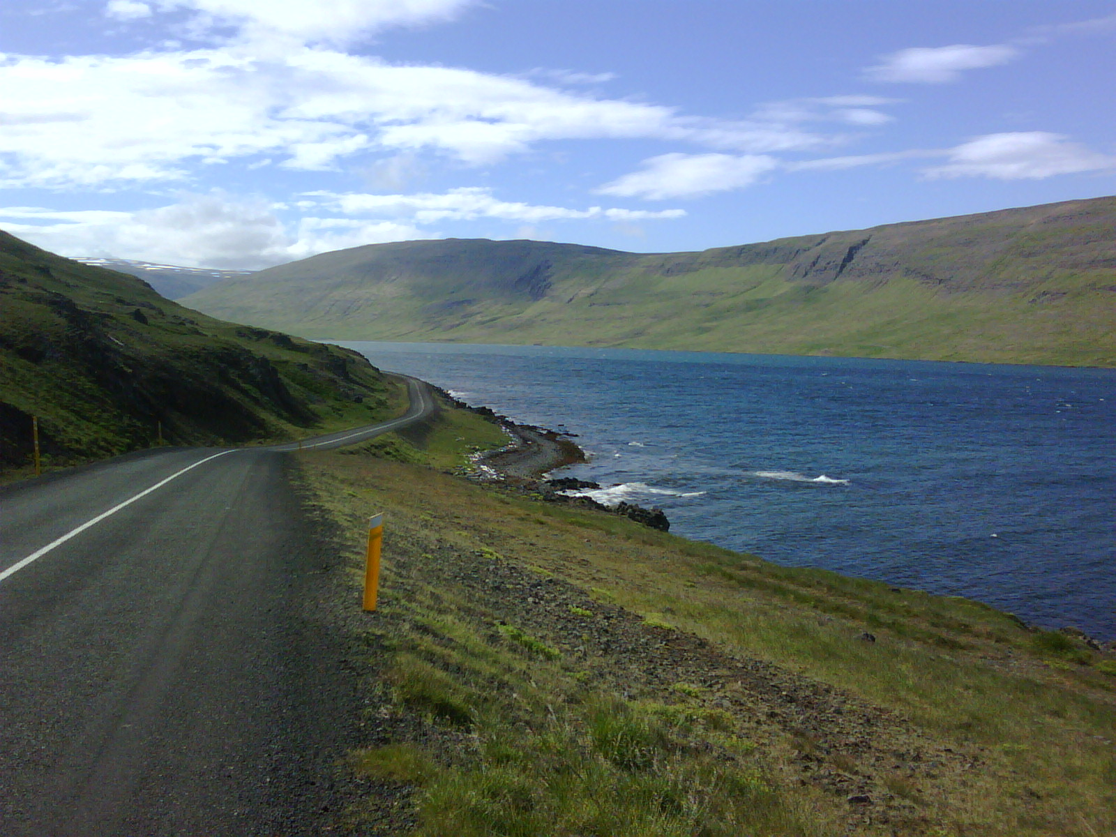 Road 61 Djúpvegur